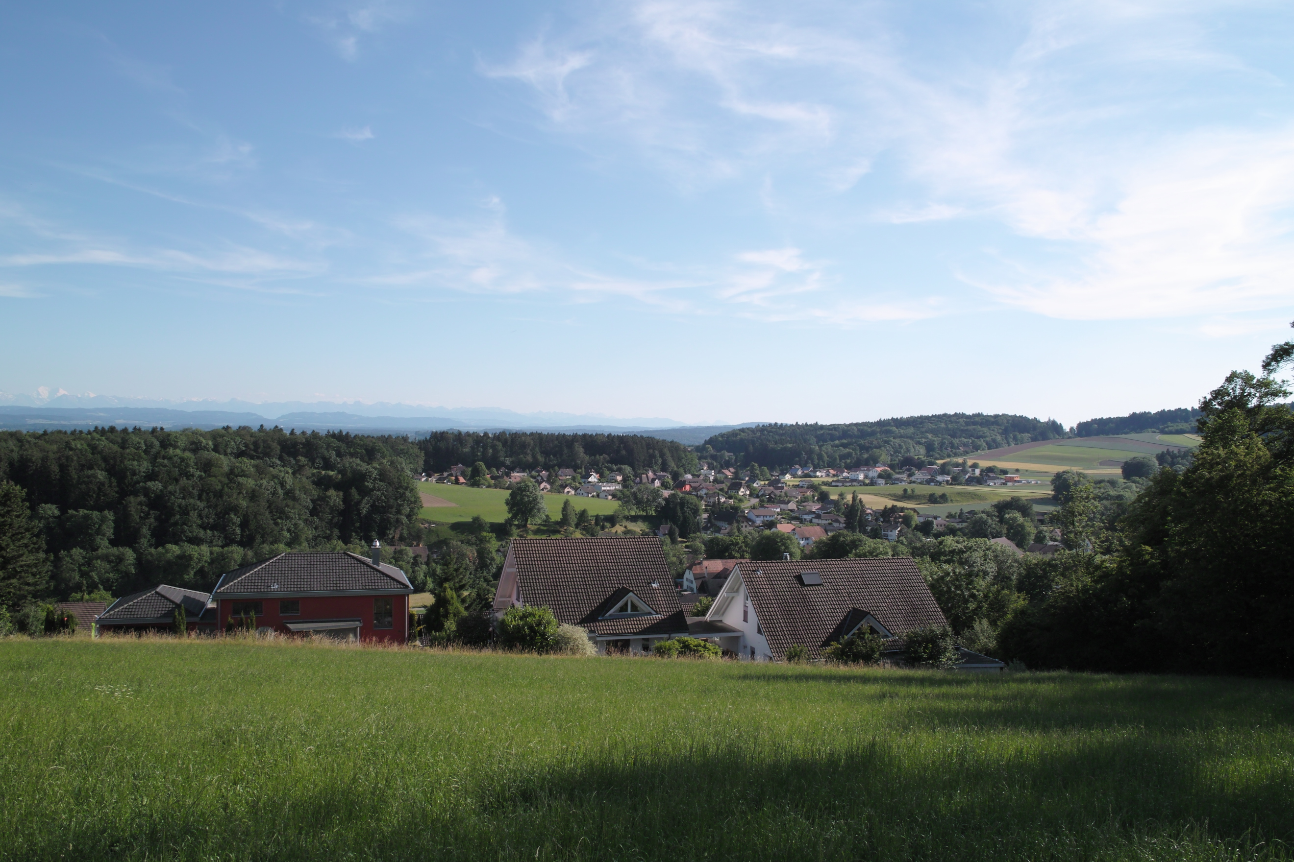 View of Hubersdorf, canton of Solothurn, Switzerland. Taken at the road to Kammersrohr.